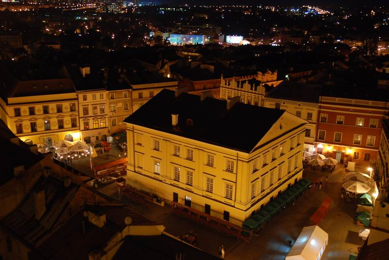 Crown Tribunal in Lublin – view from the Trinitarian Tower